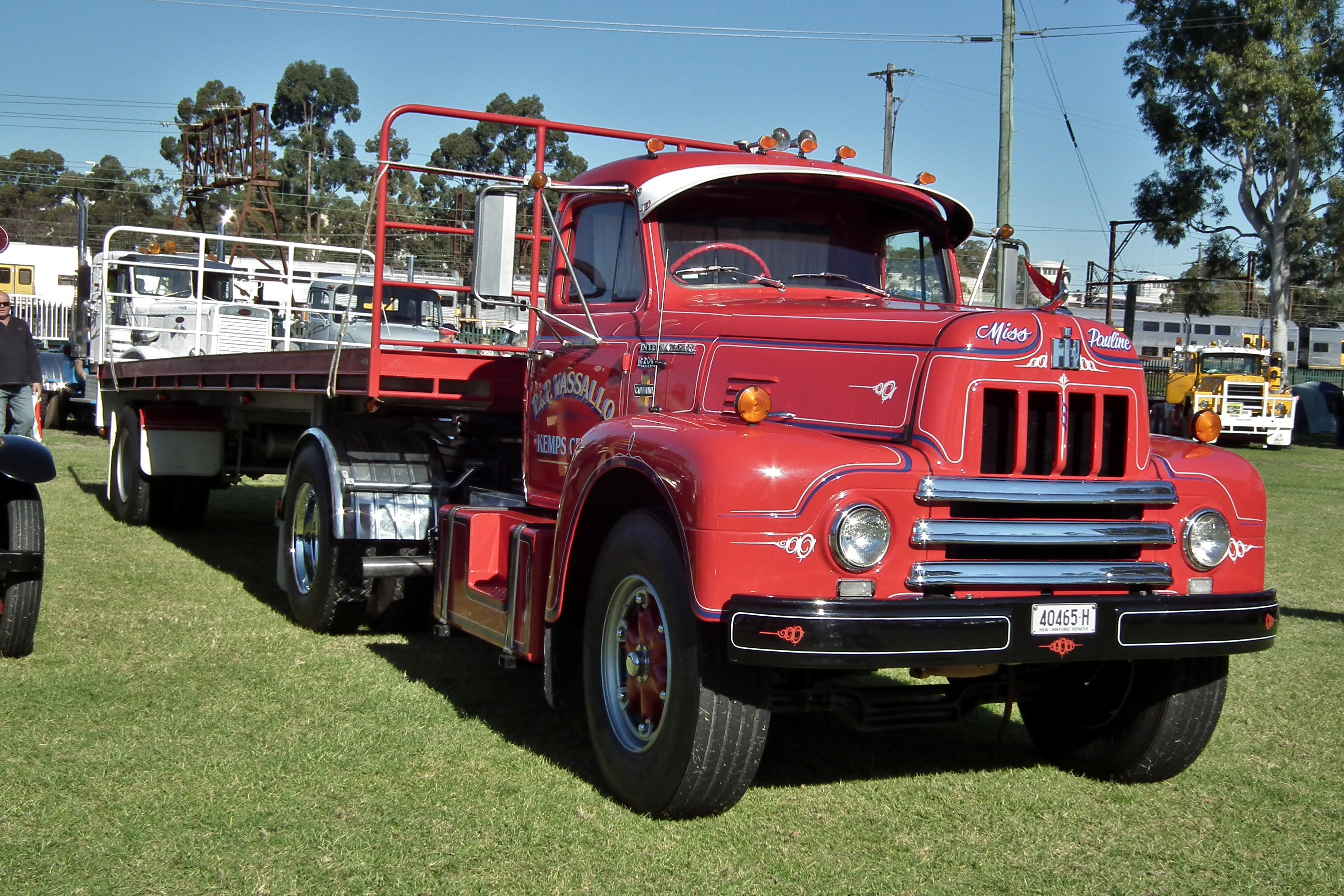 1962 International R200 prime mover. Taken at the 2011 Sydney Antique & Classic Truck Show, held at the Museum of Fire in Penrith, NSW.